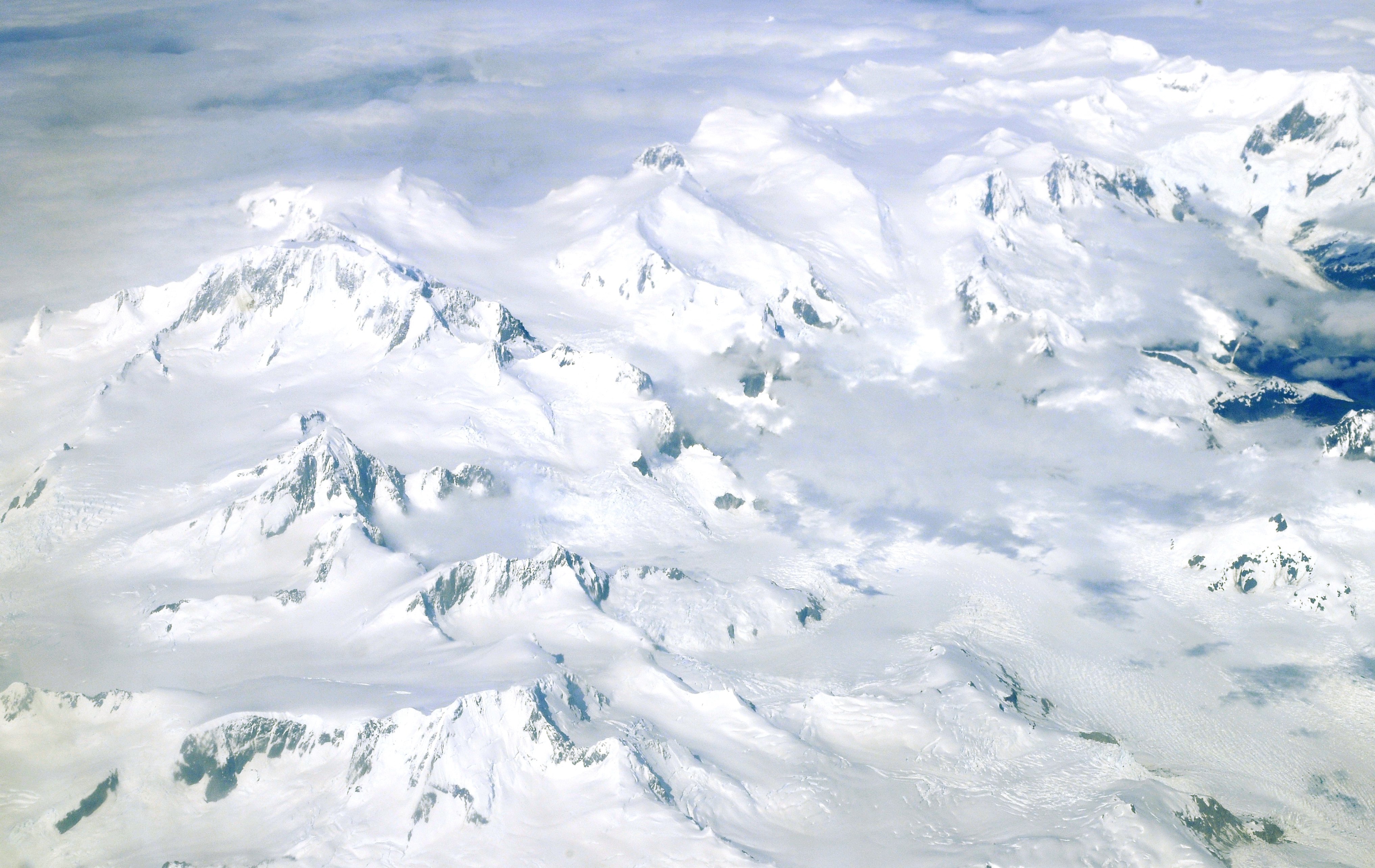 Peaks with perpetual snow and ice fields. Tierra del Fuego, Chile